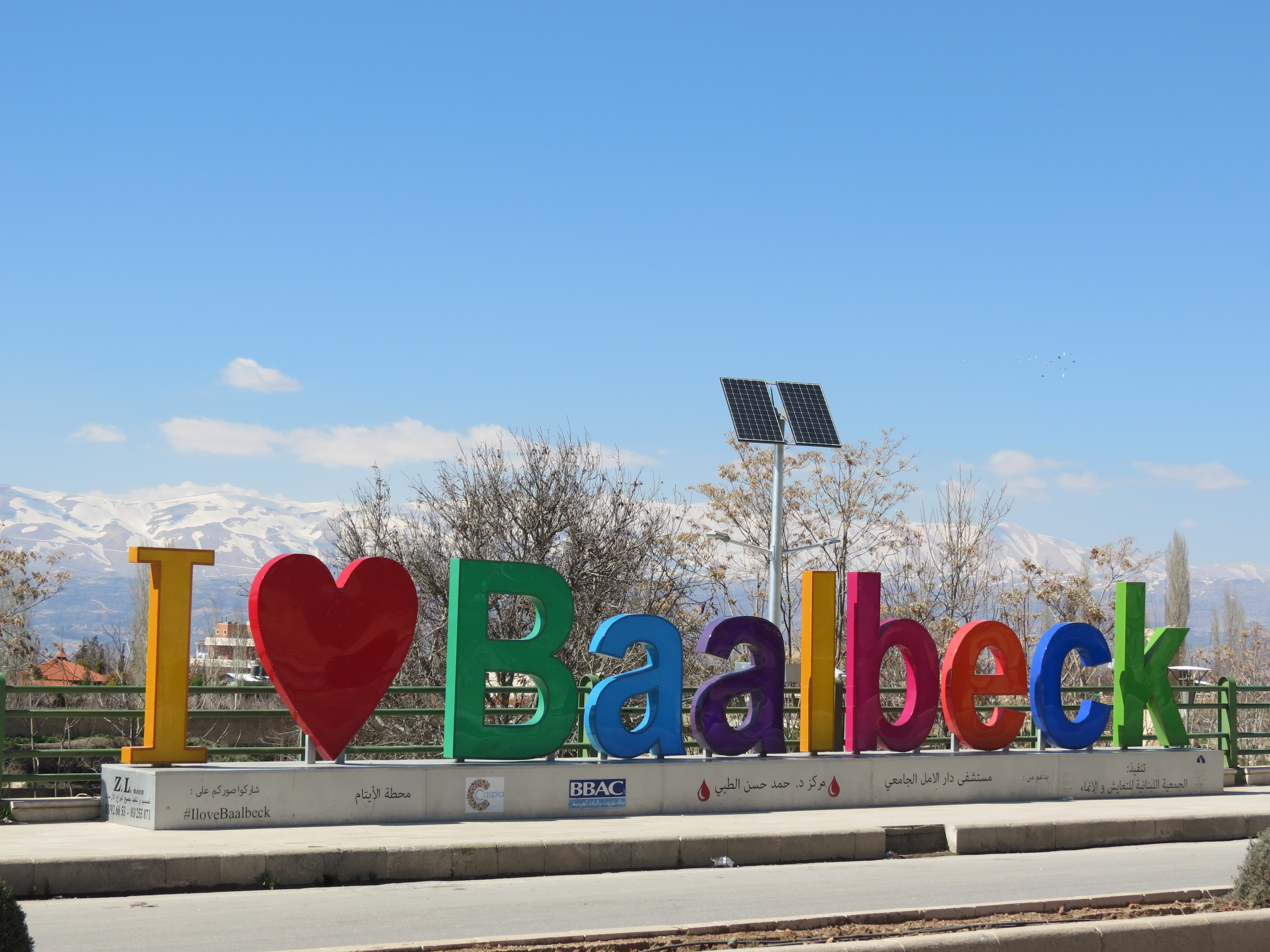 A sculpture with the words "I ♥ Baalbeck" in Baalbek, Lebanon.